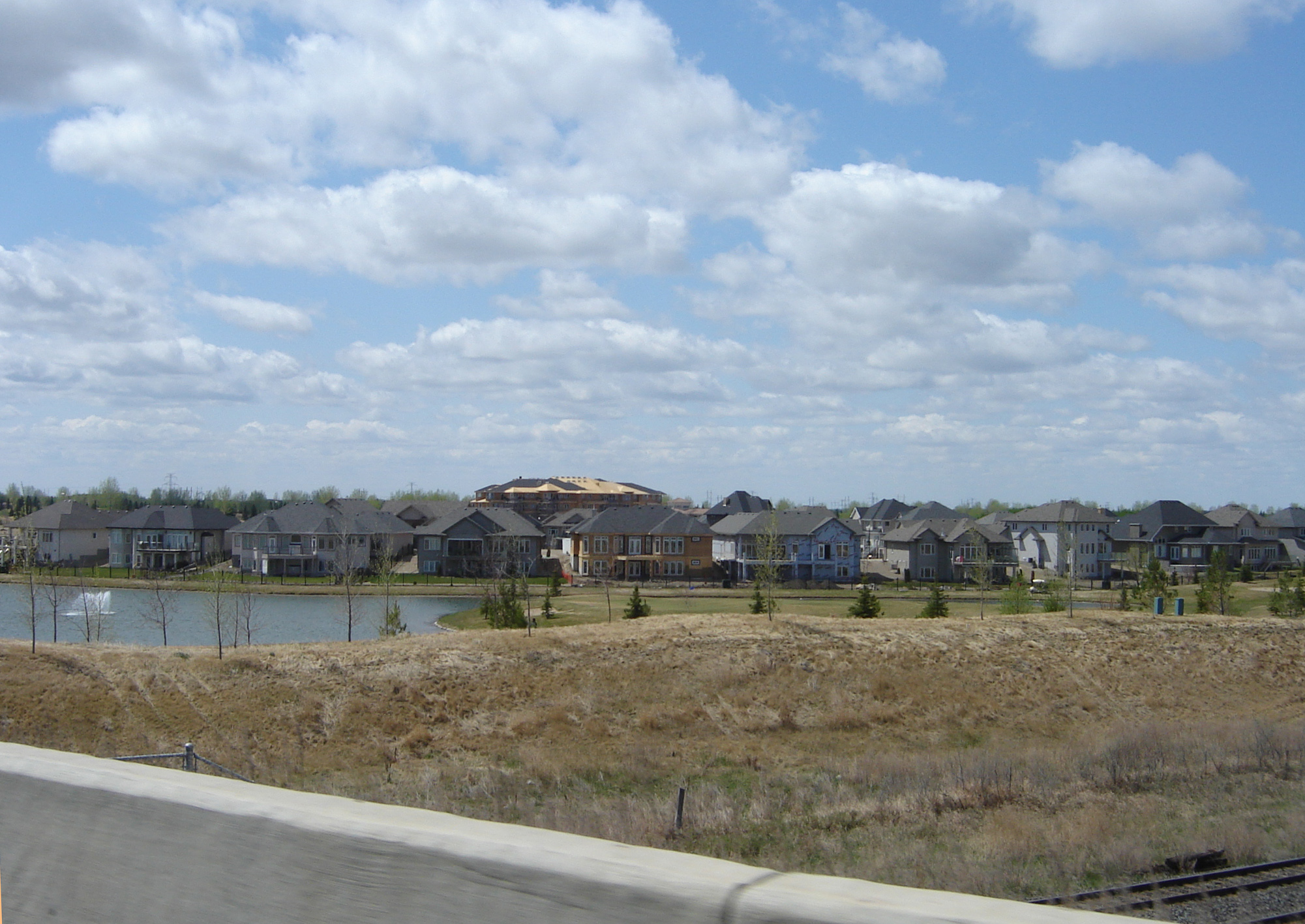 The Willows, Saskatoon Streetscape